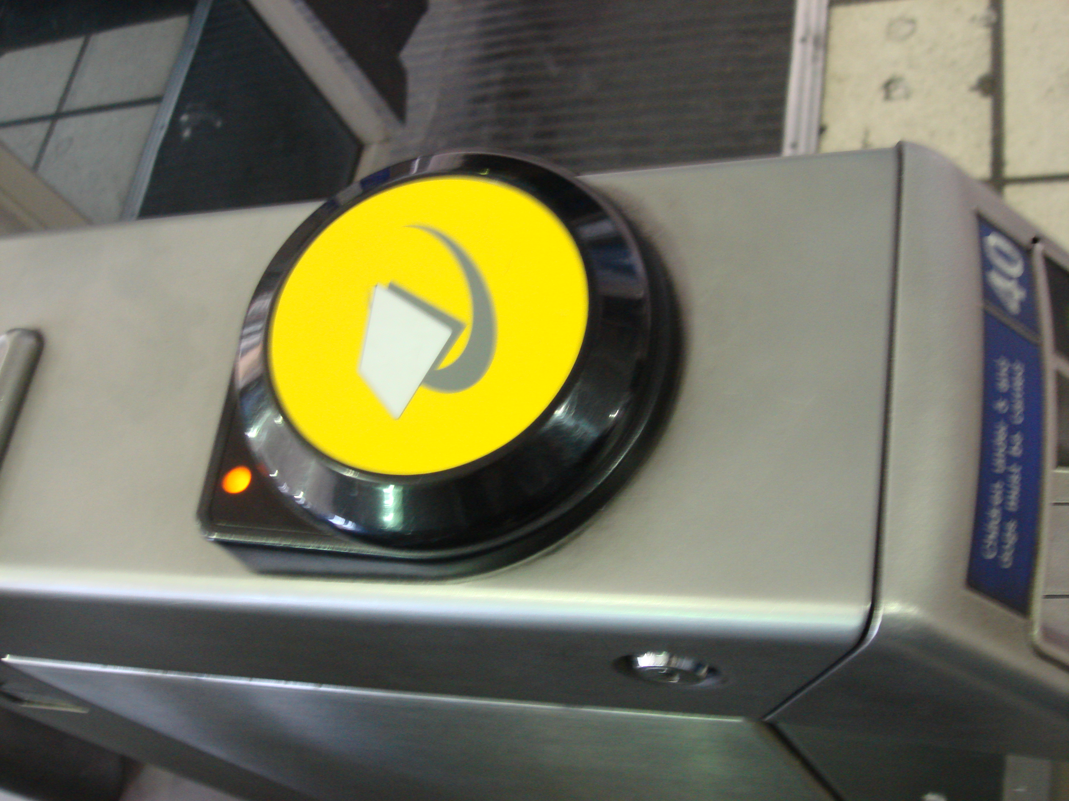 A TfL Oyster Card reader on a ticket barrier at Kilburn park tube station